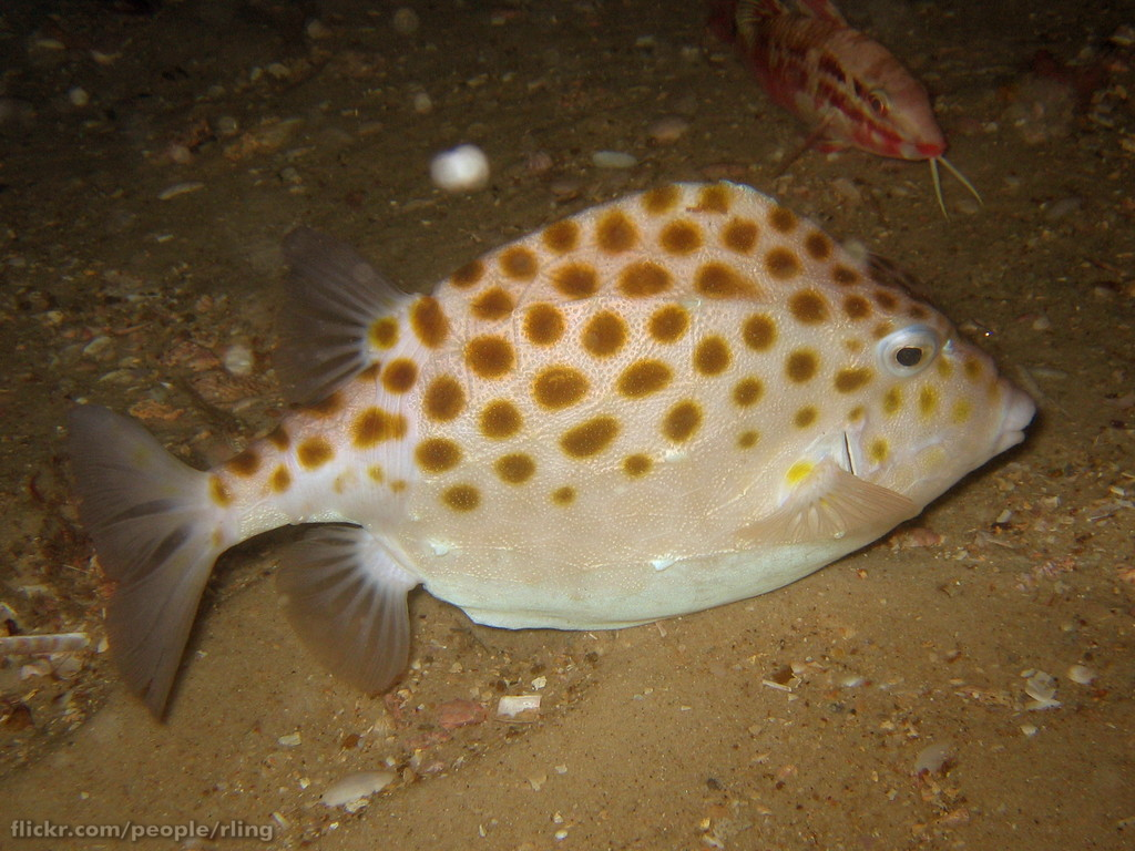 An Eastern Smooth Boxfish (Anoplocapros inermis). Pipeline, Port Stephens, NSW Boxfish are covered in hard triangular plates of armour, which make the fish look a bit like a living geodesic dome. The armour offers good protection, but prevents the fish bending its body which makes swimming an effort! The boxfish is able to move its tail thanks to an un-armoured section near the tail which acts as a hinge. The armour plates and "hinge" are clearly visible in the large version of this image. They are also visible in this photo of a dried Eastern Smooth Boxfish on the Australian Museum web site.